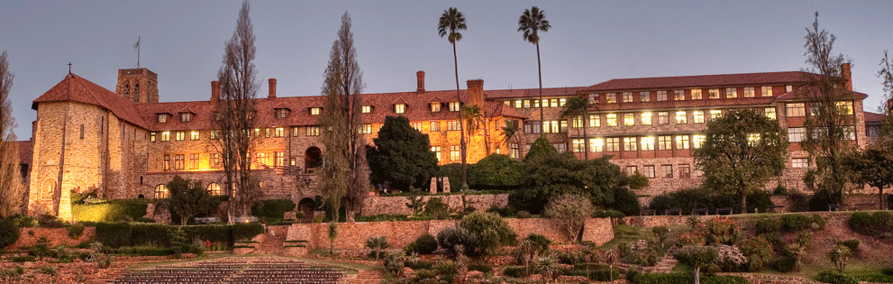 The beautiful Northern Facade of St John's College (Johannesburg, South Africa). The school was designed by Herbert Baker and Fleming.